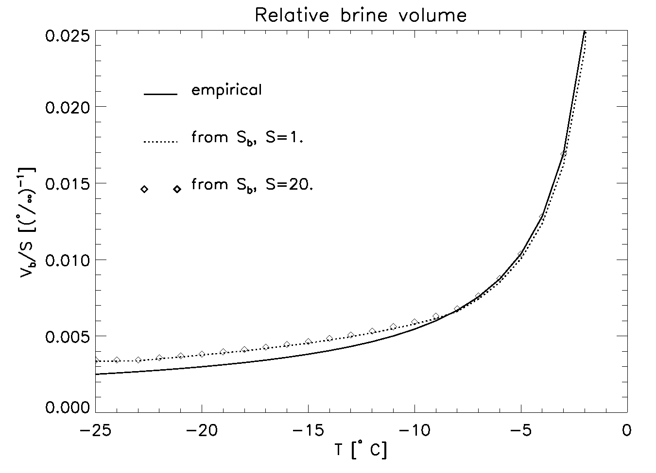 Sea ice relative brine volume divided by salinity as a function of temperature calculated in two different ways.